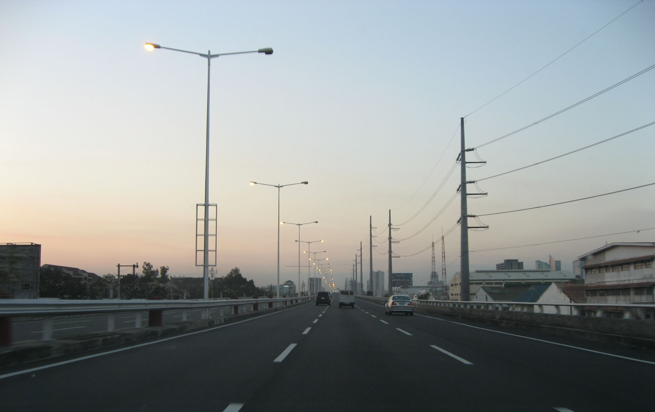 Road-level photo of the Skyway of the South Luzon Expressway looking northbound